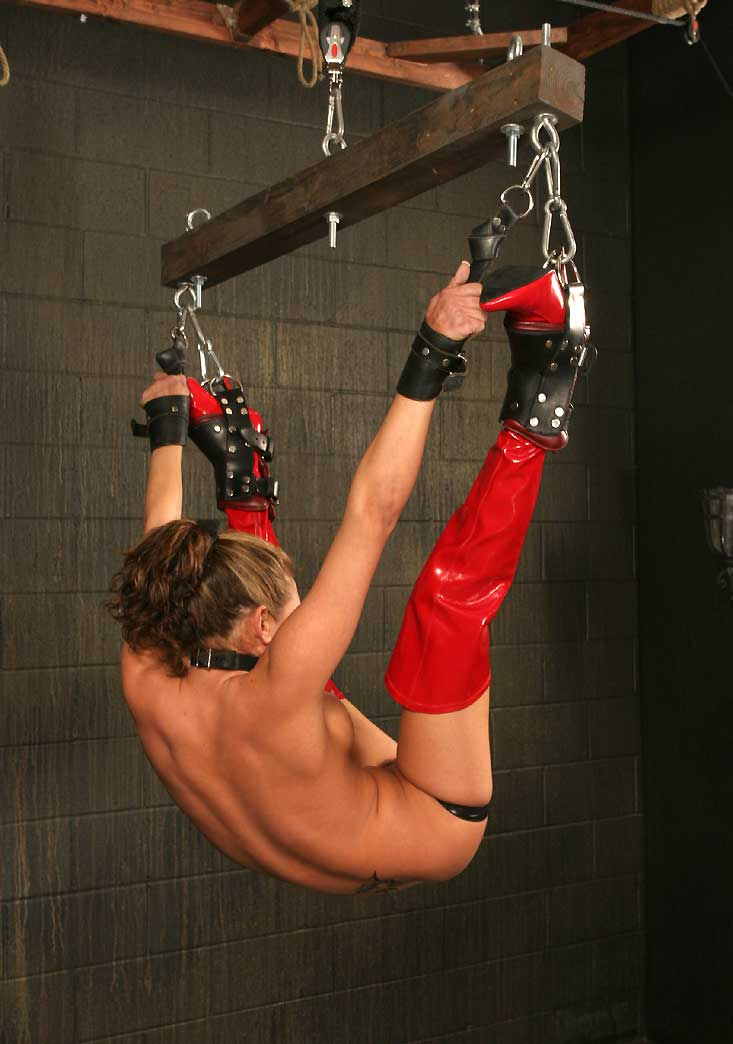 Model in horizontal suspension, face up